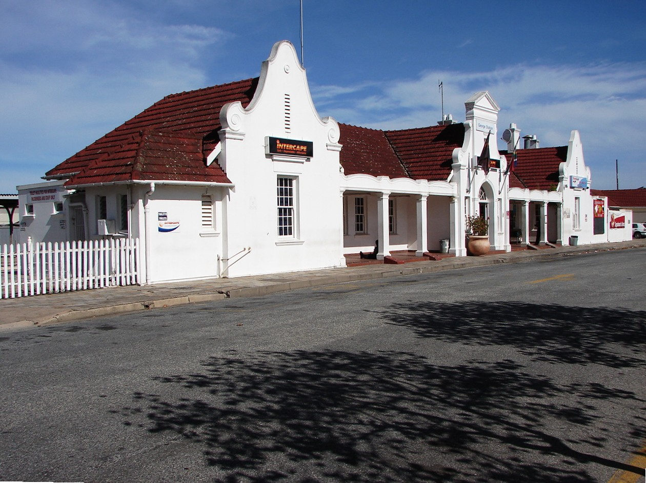 George station